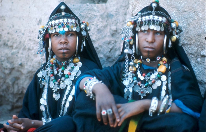 Women of Ahwash-dance group from the Anti-Atlas in the national folklore festival in Marrakech. The women are believed to come from the city of Tata Tissint (Jebel bani, Anti-Atlas).